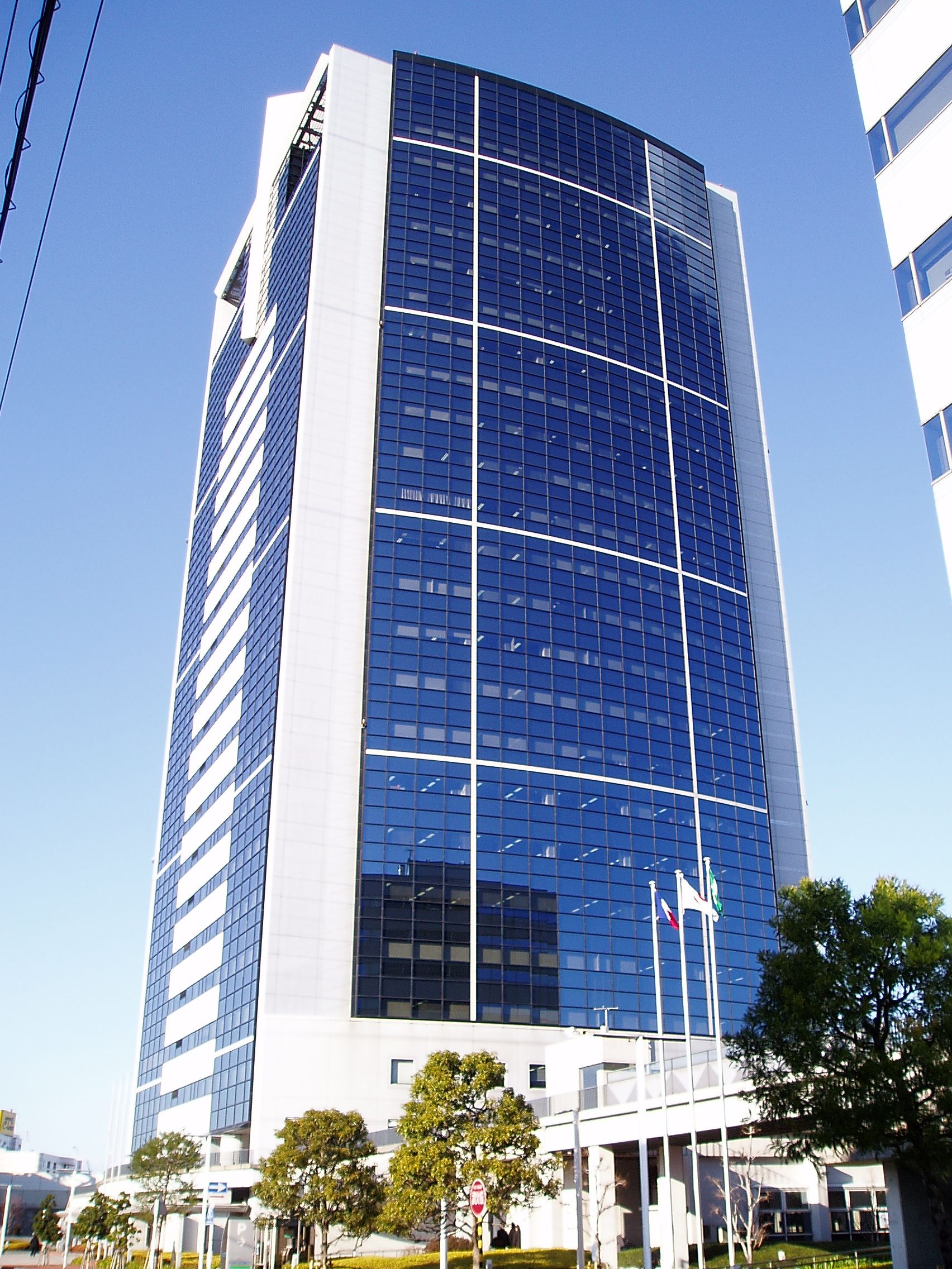 Atsugi AXT Main Tower